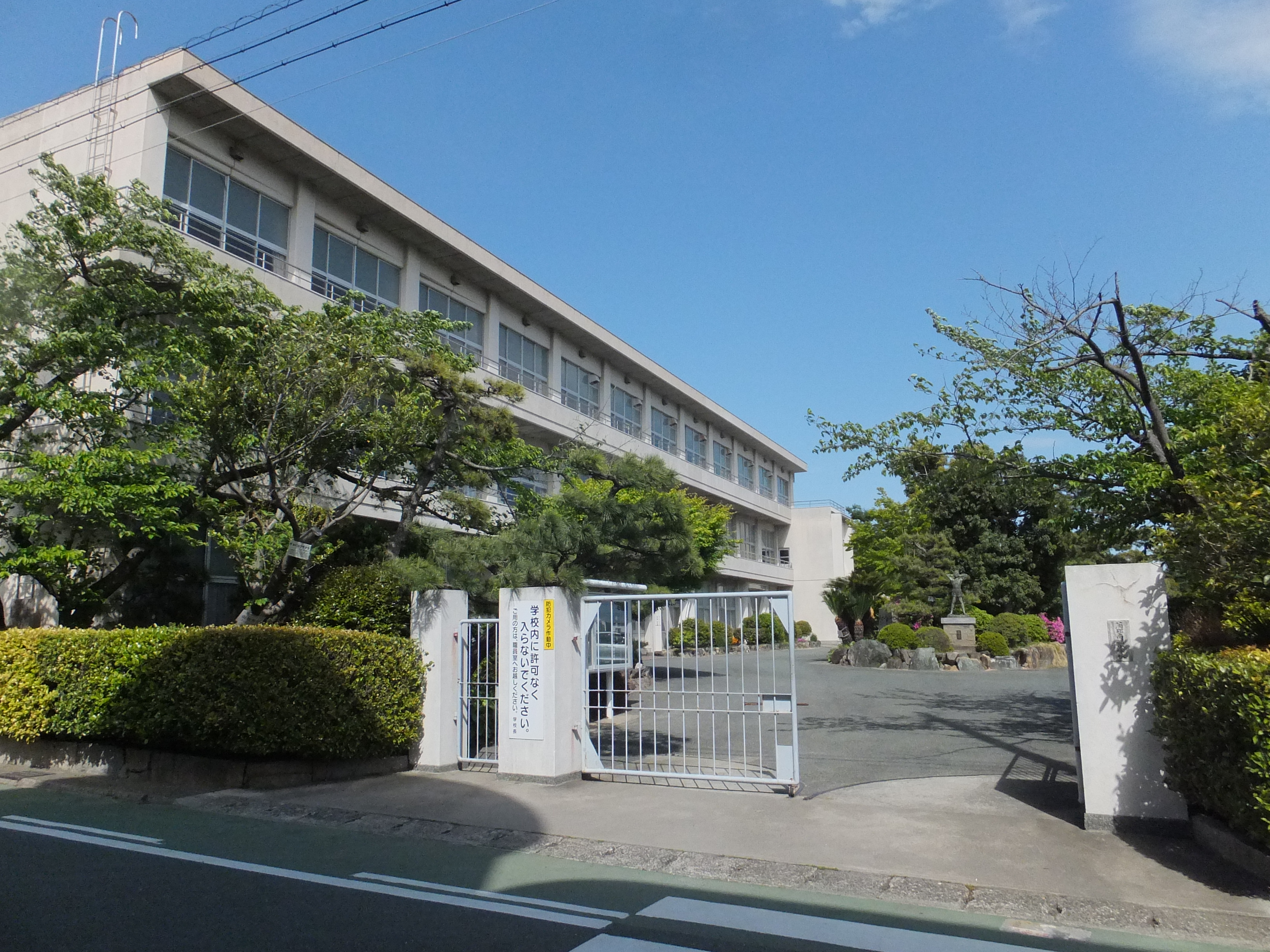 Gamagori City Gamagori Nanbu Elementary School ( Gamagōri Shiritsu Gamagōri Nanbu Shōgakkō), located at 22-3 Shinmei-cho, Gamagori, Aichi, Japan